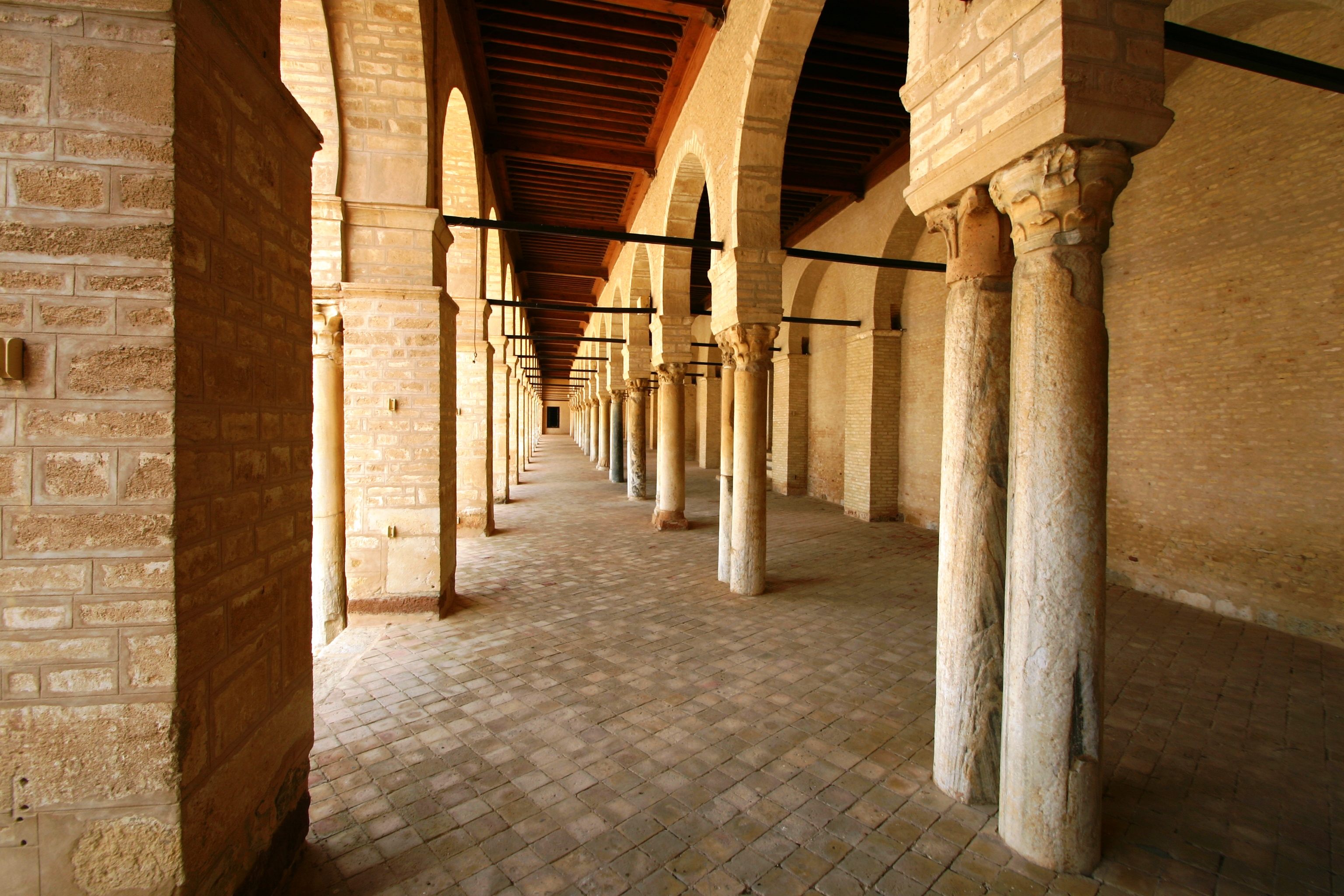 Interior view of the eastern portico of the courtyard of the Great Mosque of Kairouan, in Tunisia.